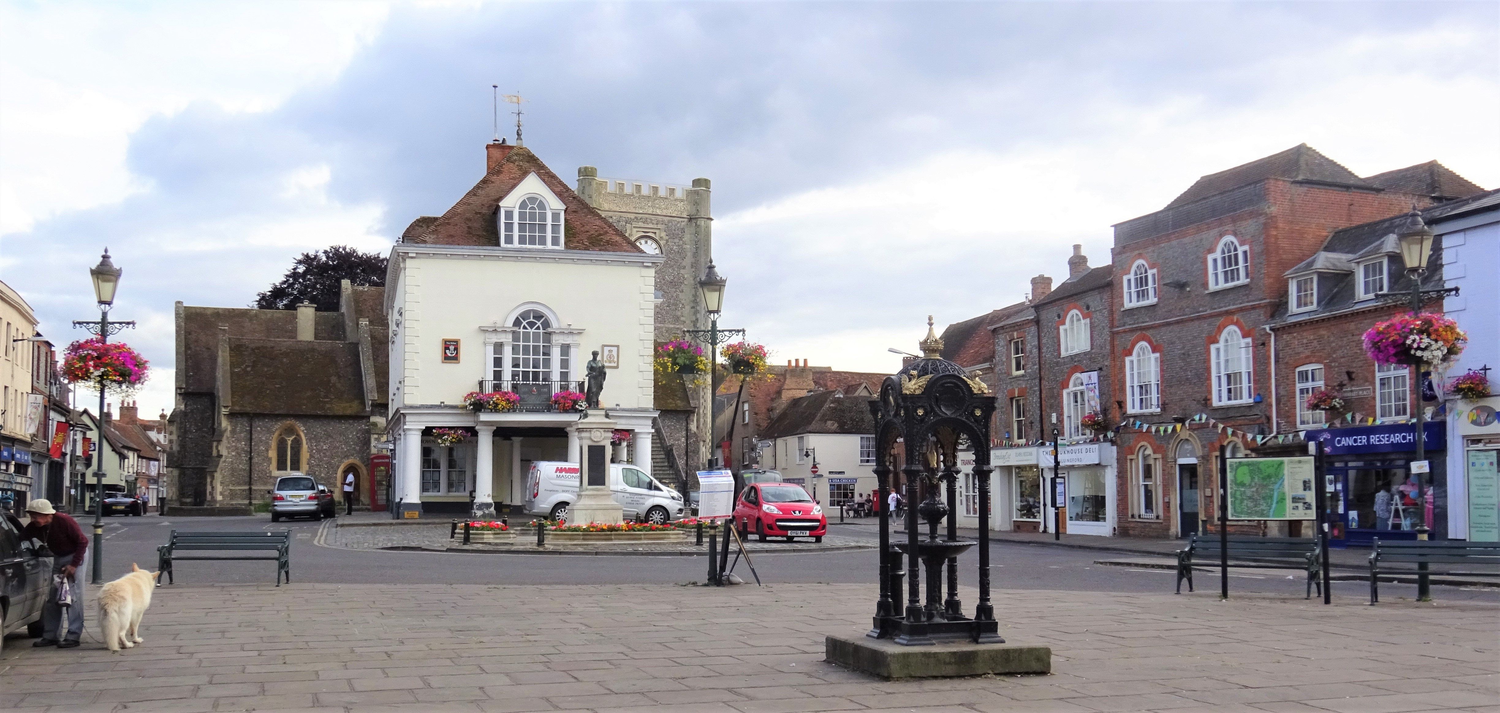 View of Wallingford town centre, Oxfordshire